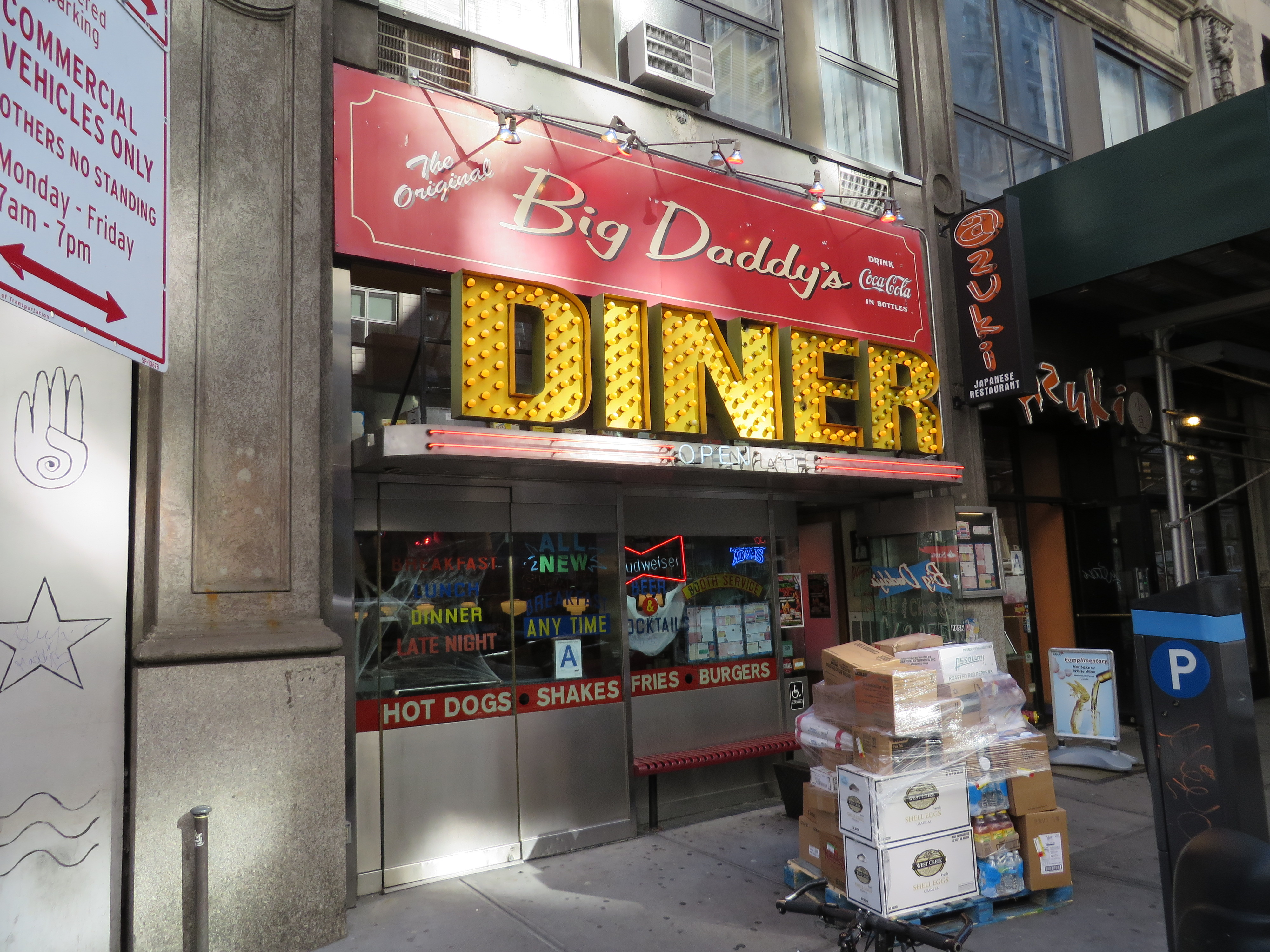 Big Daddy's diner, 239 Park Avenue South, Manhattan, New York in the Gramercy Park neighborhood.